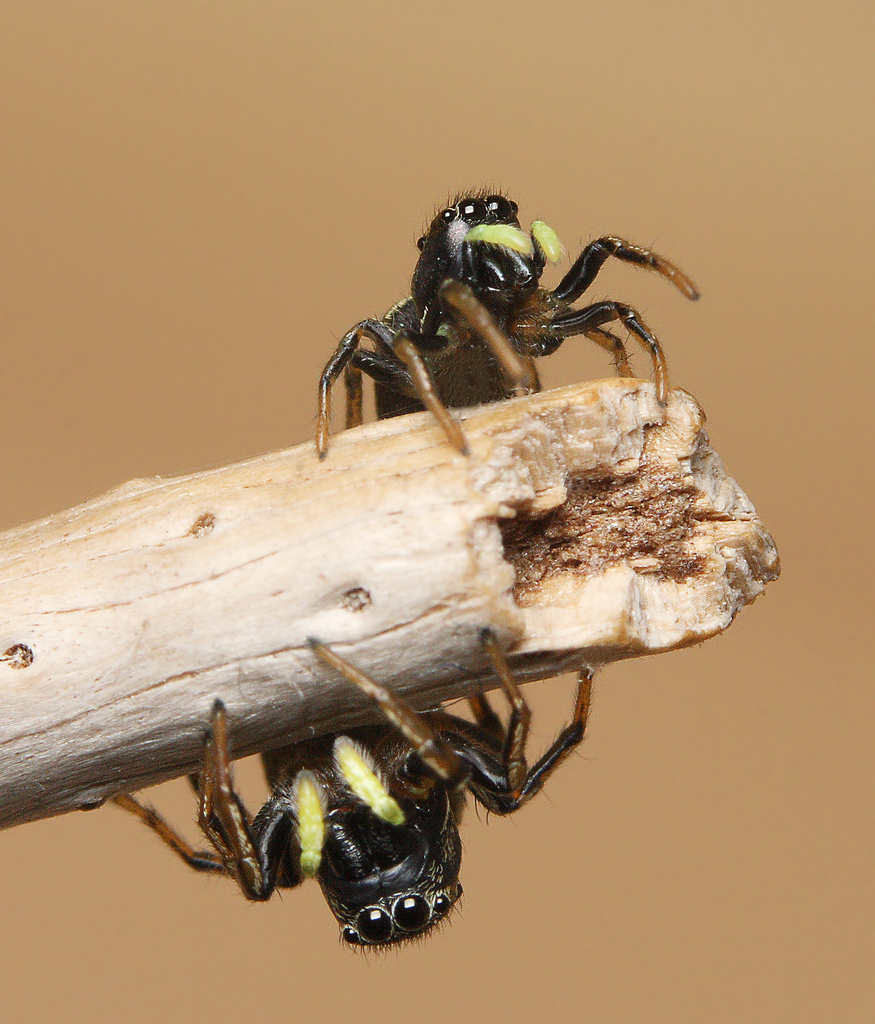 Jumping spiders - Heliophanus sp.